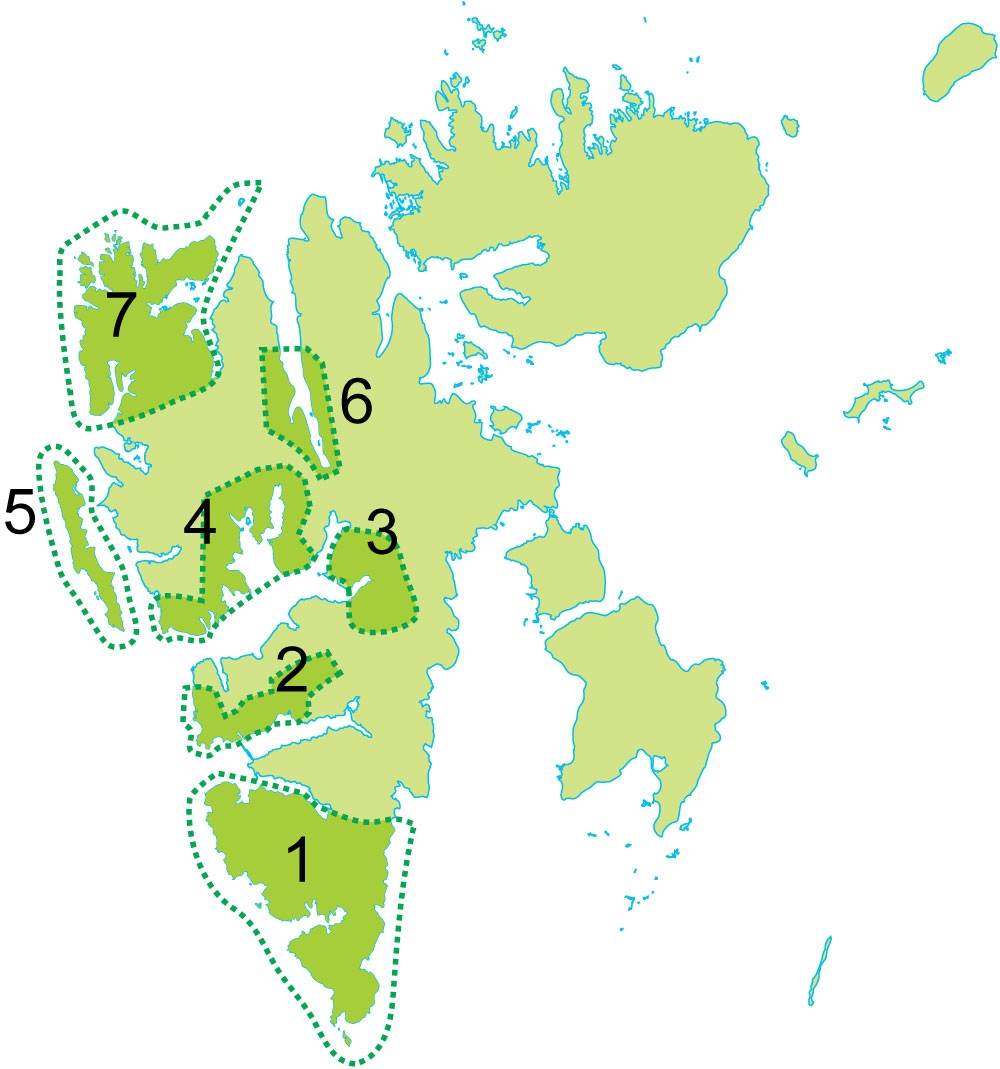 Map of the National Parks of Svalbard, Norway. The parks are 1: Sør-Spitsbergen nasjonalpark; 2: Nordenskiöld Land nasjonalpark; 3: Sassen-Bünsow Land nasjonalpark; 4: Nordre Isfjorden nasjonalpark; 5: Forlandet nasjonalpark; 6: Indre Wijdefjorden nasjonalpark; 7: Nordvest-Spitsbergen nasjonalpark (For legend